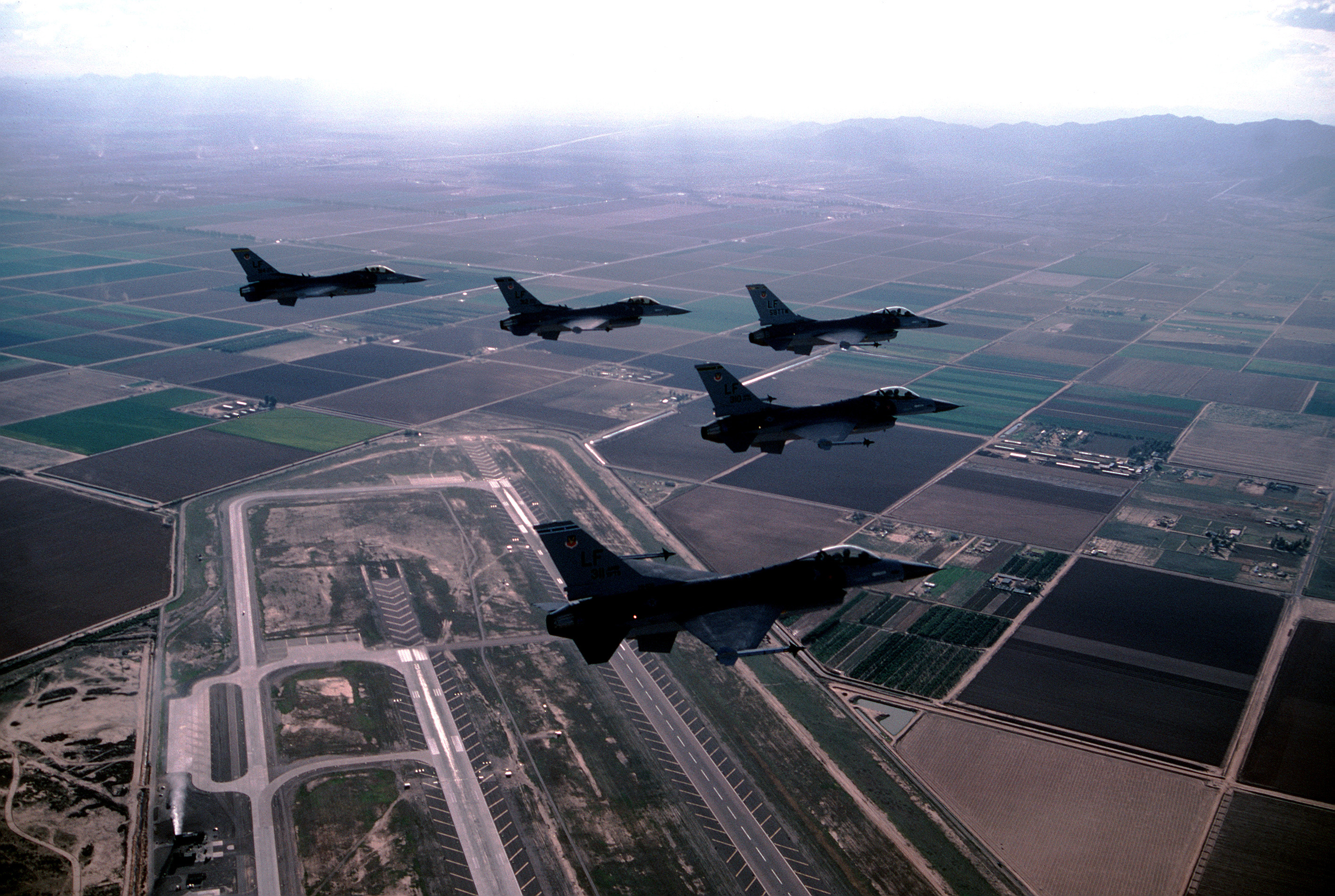 Five F-16 Fighting Falcon aircraft of the 58th Tactical Training Wing fly over Luke Air Force Base in wedge formation. Location: PHOENIX, ARIZONA (AZ) UNITED STATES OF AMERICA (USA)